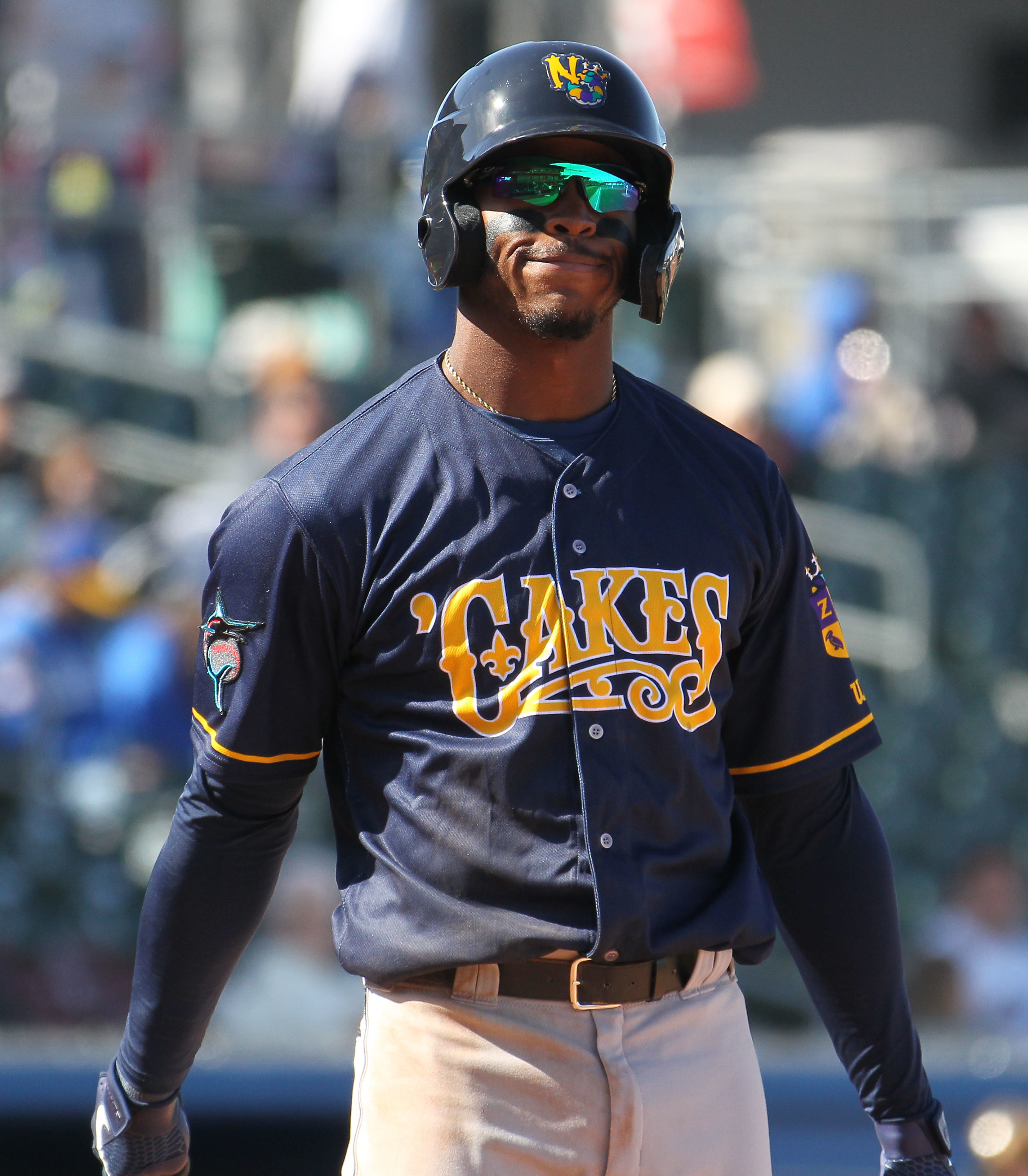 Monte Harrison with the New Orleans Baby Cakes during a 2019 game at Werner Park in Nebraska.